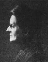 Grace Raymond Hebard, from a 1921 publication.